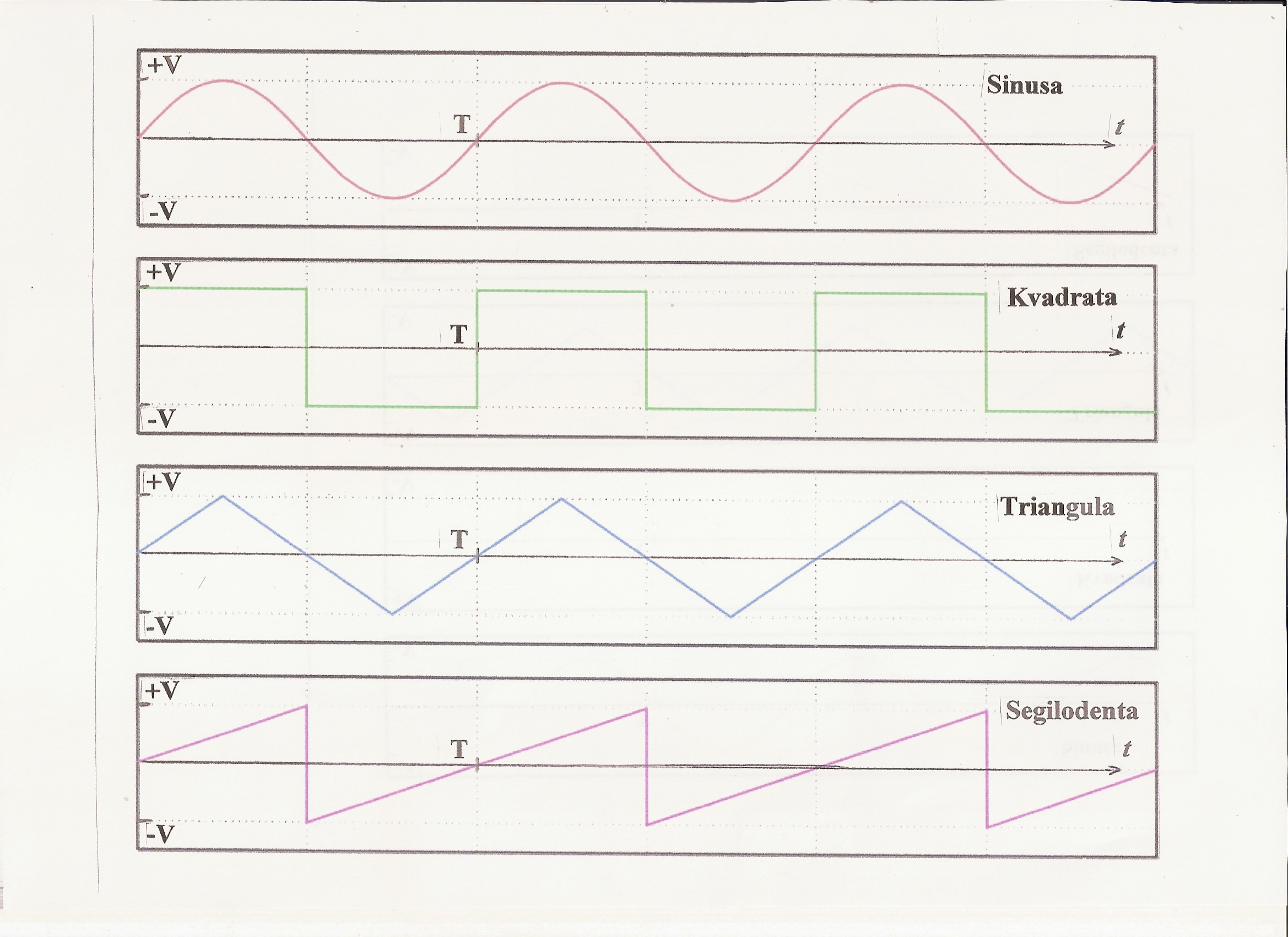 This shows several waveforms: sine wave, square wave, triangle wave, and rising sawtooth wave.